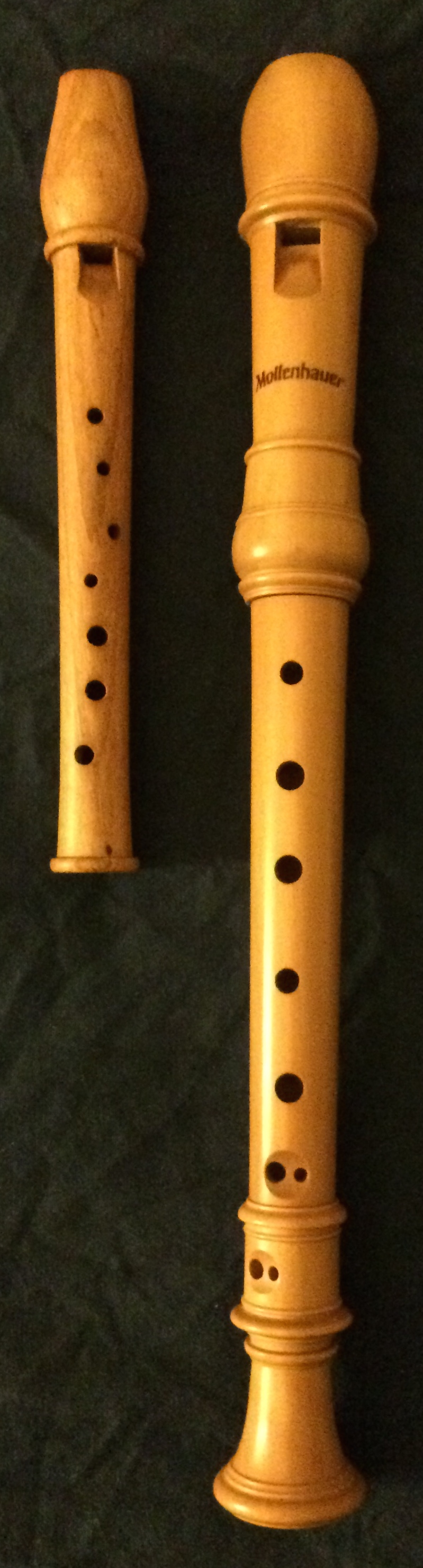 A one-piece garklein recorder with baroque fingering in plum wood, next to a soprano recorder for comparison.